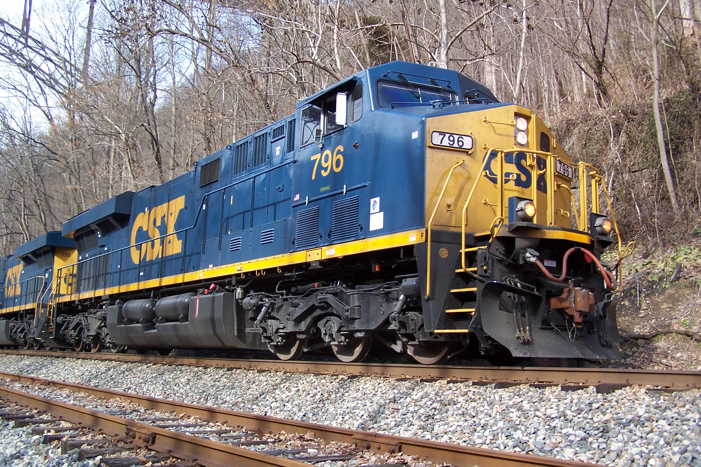 CSXT 796 and sister 795 (both ES44AH's) lead another coal train under the New River Gorge Bridge. The 'H' in this class of engine represents that the engine has high tractive effort software.